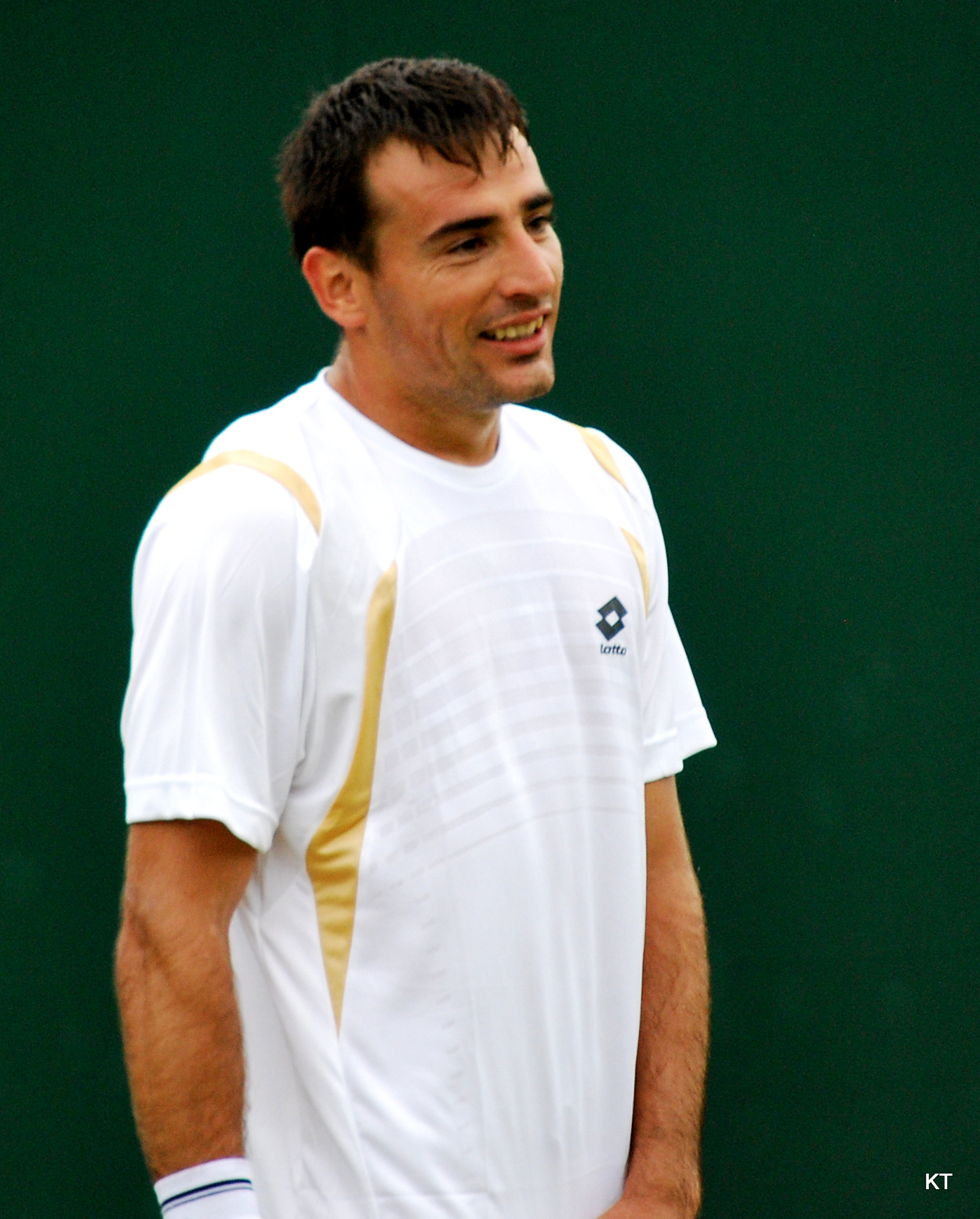 Ivan Dodig during his first round match with Lukas Rosol on Day 2 of Wimbledon 2012. Rosol won 6-4, 3-6, 7-6, 7-5.